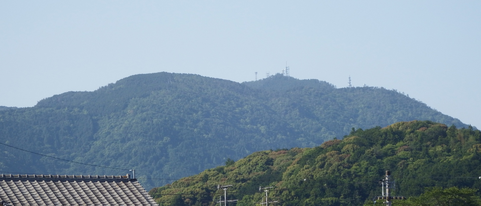 Mount Kokuzo (Kokuzo-san) seen from Susaki City, Kochi Prefecture, Japan